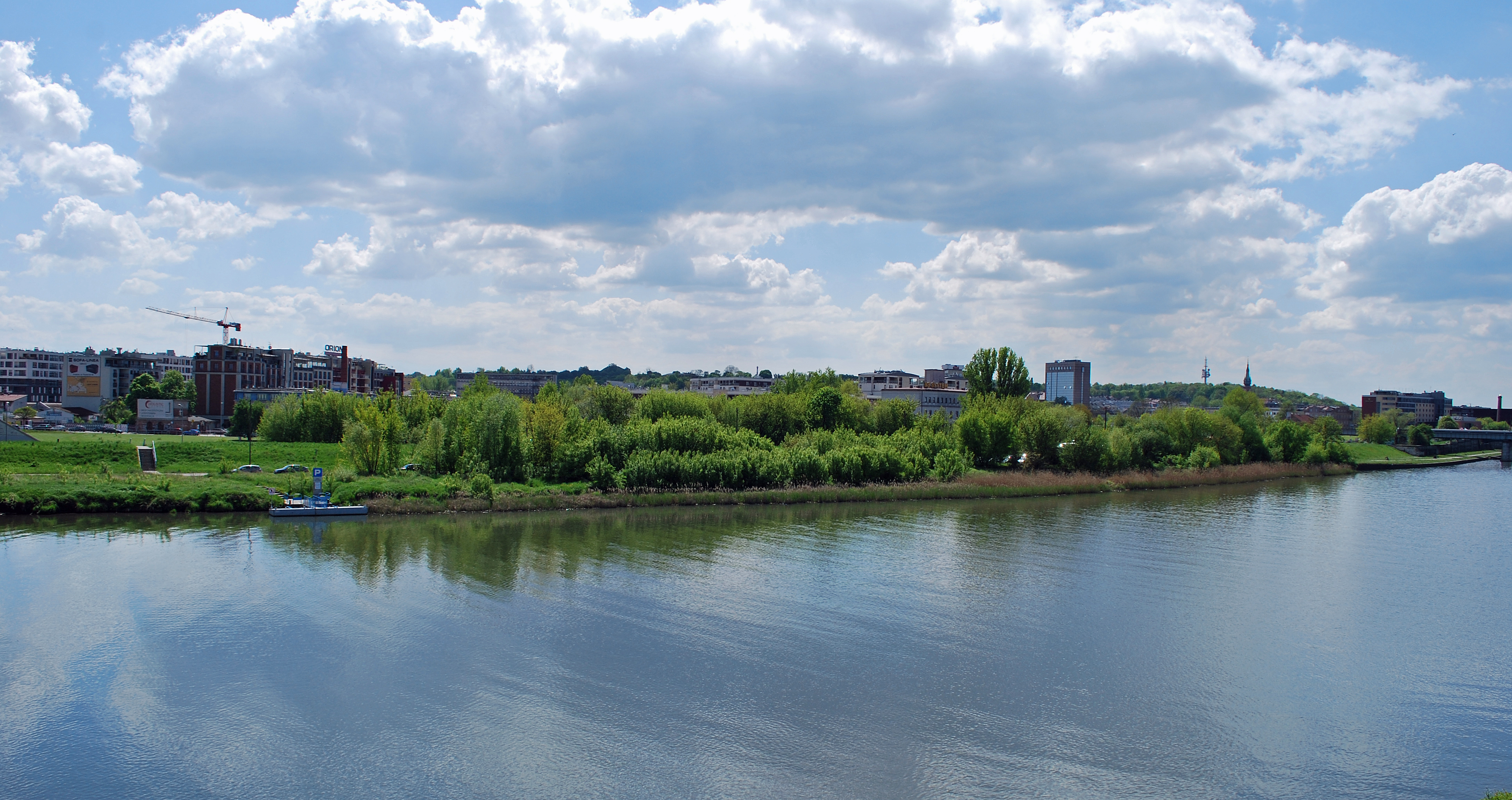 Wisła Boulevards, Lotników Alianckich Blv, Podgórze, Kraków, Poland